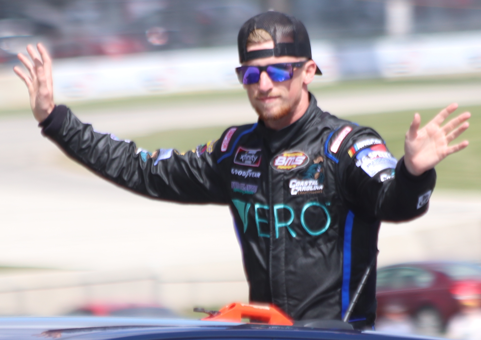 NASCAR driver Brandon Brown waves to the crowd at Road America.